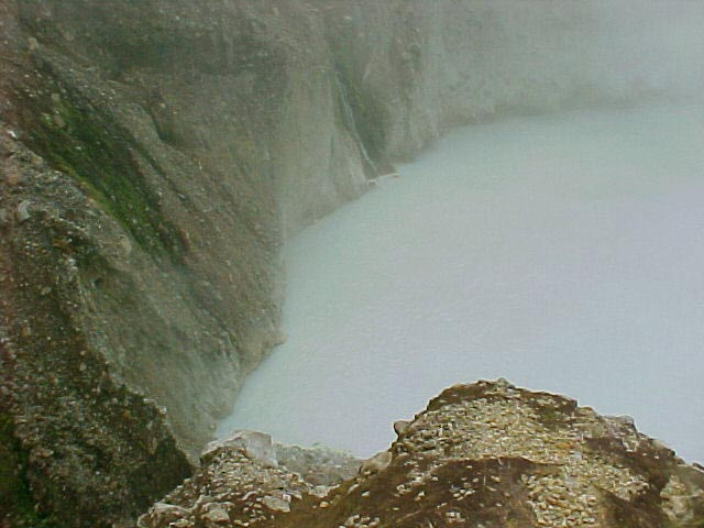 The Boiling Lake at the Valley of Desolation in Dominica